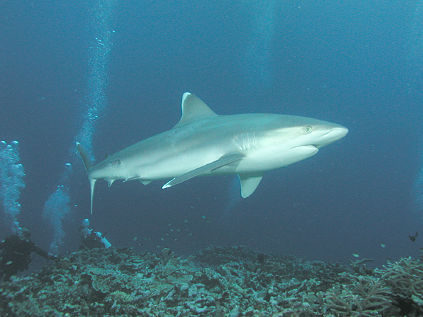 Silvertip Shark, New Hanover Island, Papua New Guinea.